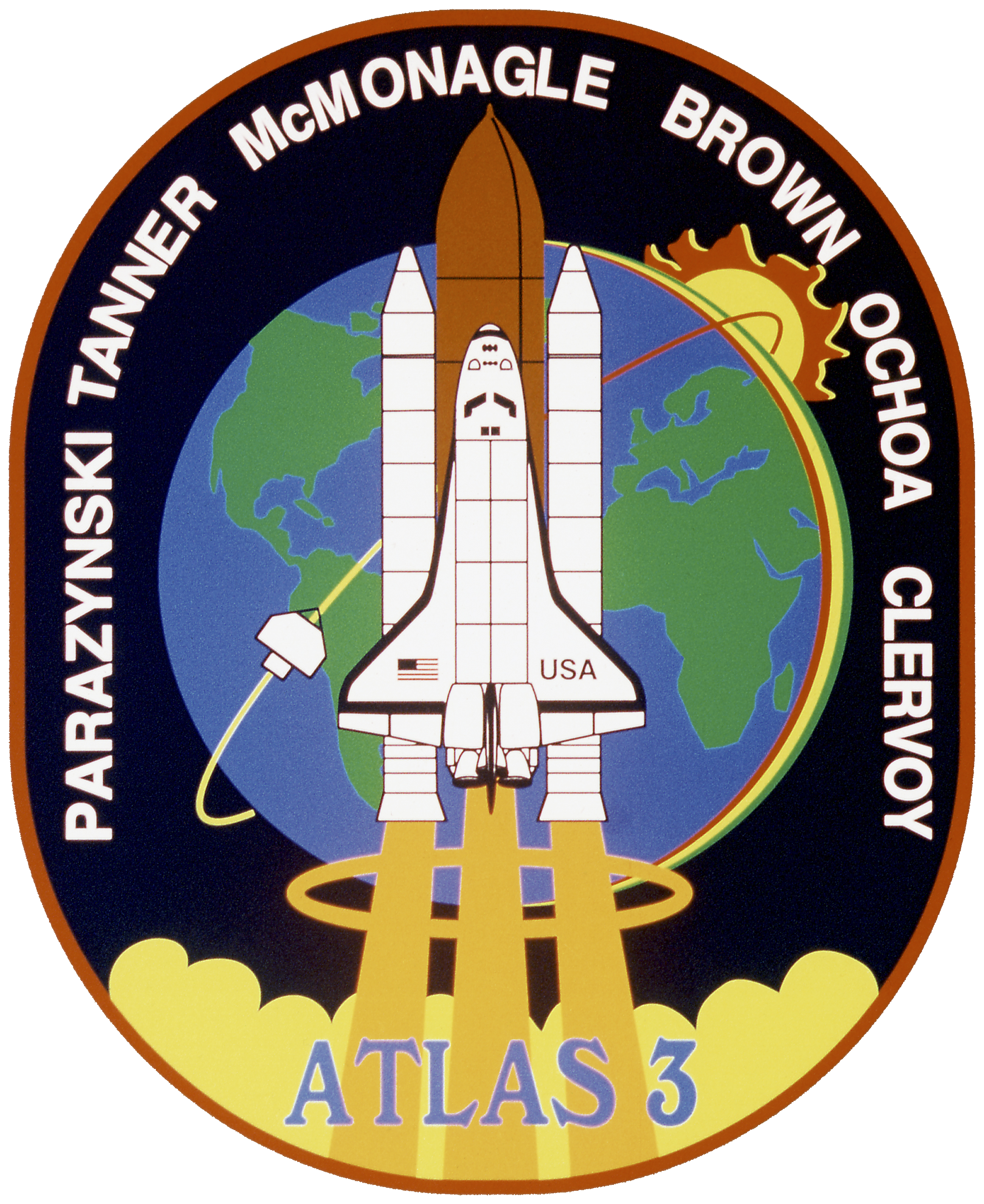 STS-66 Mission Insignia Designed by the mission crew members, the STS-66 emblem depicts the Space Shuttle Atlantis launching into Earth orbit to study global environmental change. The payload for the Atmospheric Laboratory for Applications and Science (ATLAS-3) and complementary experiments were part of a continuing study of the atmosphere and the Sun's influence on it. The Space Shuttle is trailed by gold plumes representing the astronaut symbol and is superimposed over Earth, much of which is visible from the flight's high inclination orbit. Sensitive instruments aboard the ATLAS pallet in the Shuttle payload bay and on the free-flying Cryogenic Infrared Spectrometers and Telescopes for the Atmospheric-Shuttle Pallet Satellite (CHRISTA-SPAS) that gazed down on Earth and toward the Sun, are illustrated by the stylized sunrise and visible spectrum.